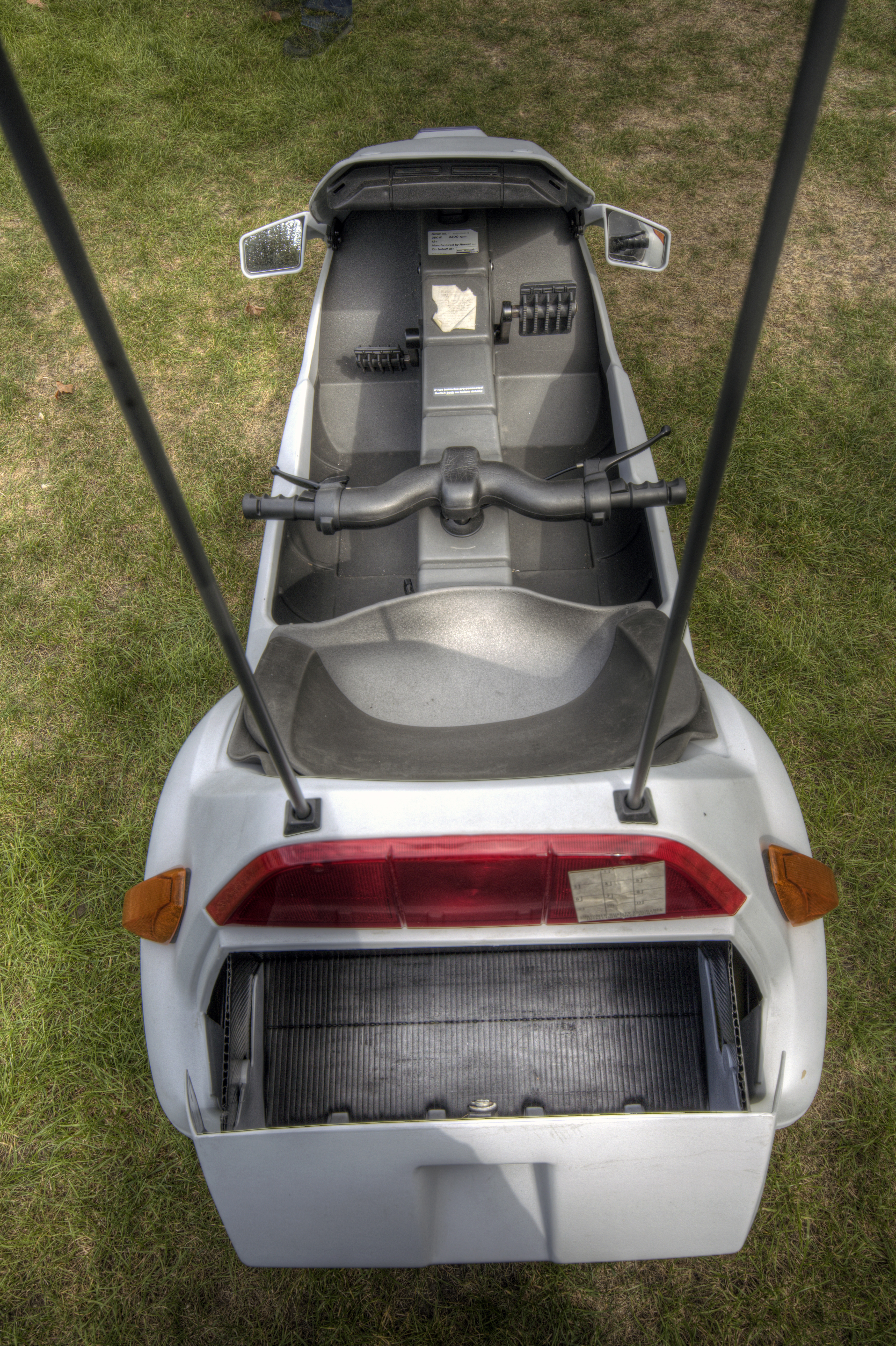 Rear view of a Sinclair C5 showing the cockpit